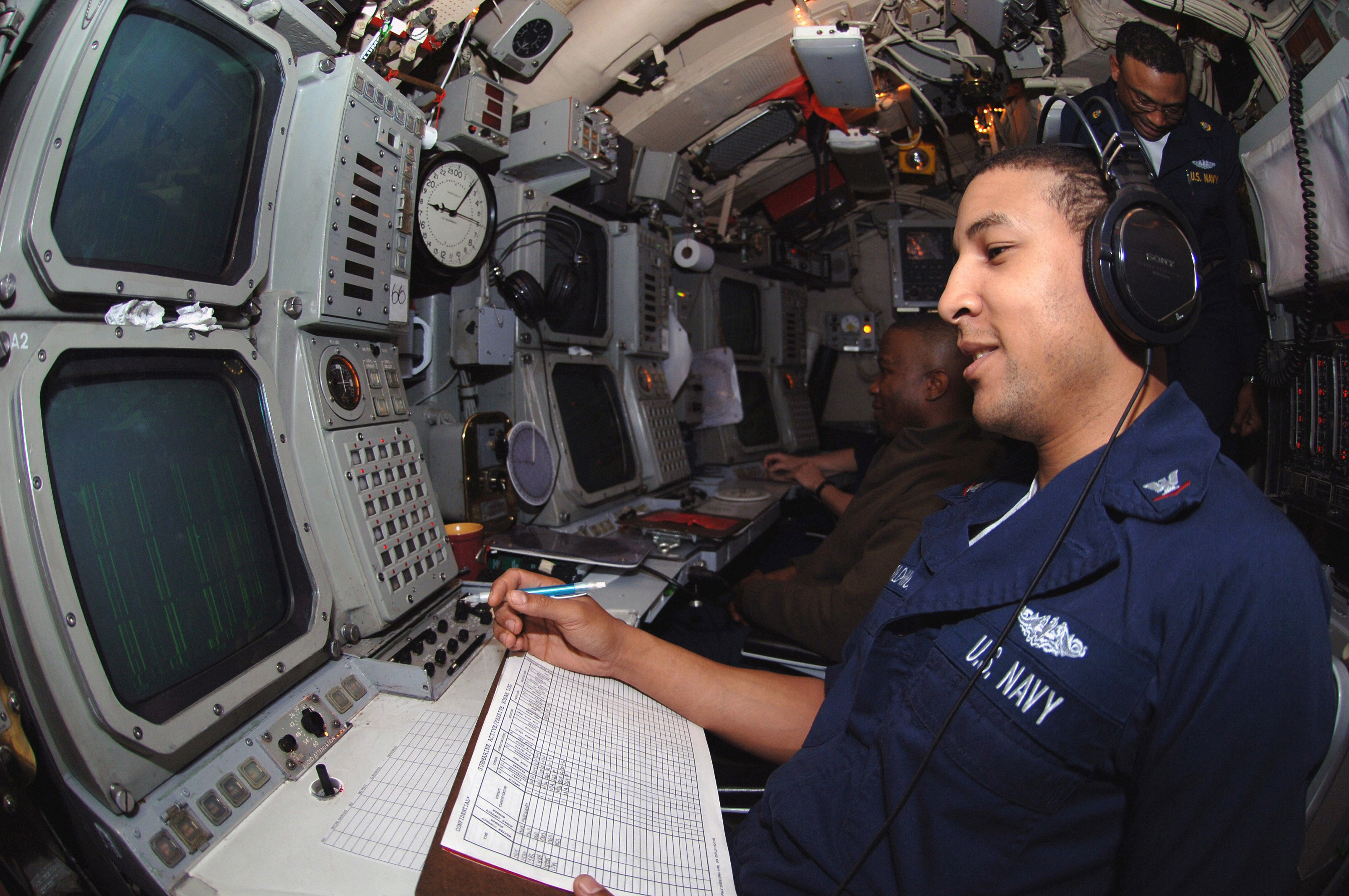 ID: DN-SD-07-01875 Service Depicted: Navy Command Shown: USS FLORIDA 060412-N-7092S-078 US Navy (USN) Machinist Mate 3rd Class (MM3) Daren L. Solomon operates the broad-band sonar aboard the USN Ohio Class Guided Missile Submarine USS FLORIDA (SSGN 728).